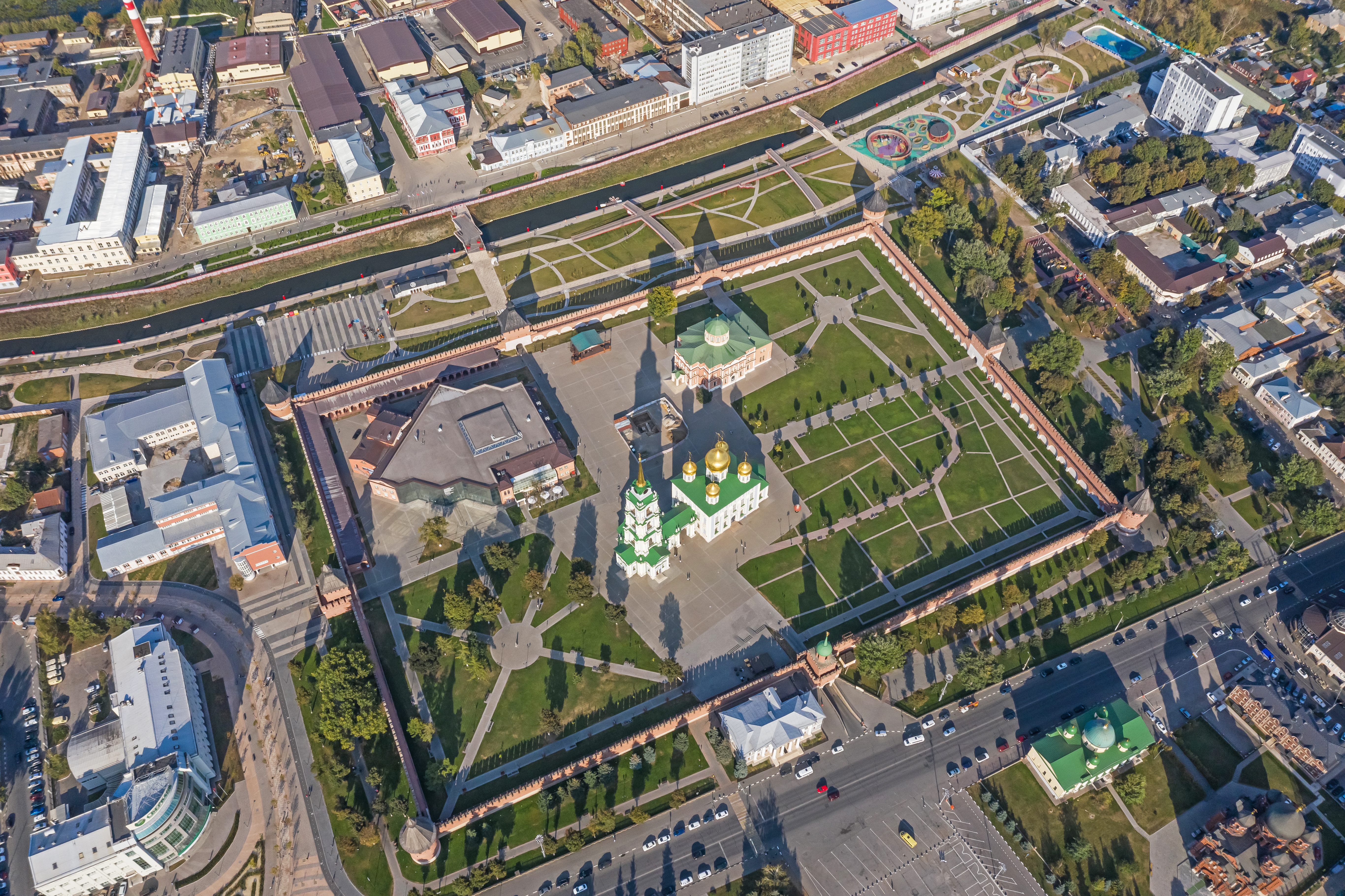 Aerial photo of the Kremlin in Tula, Russia